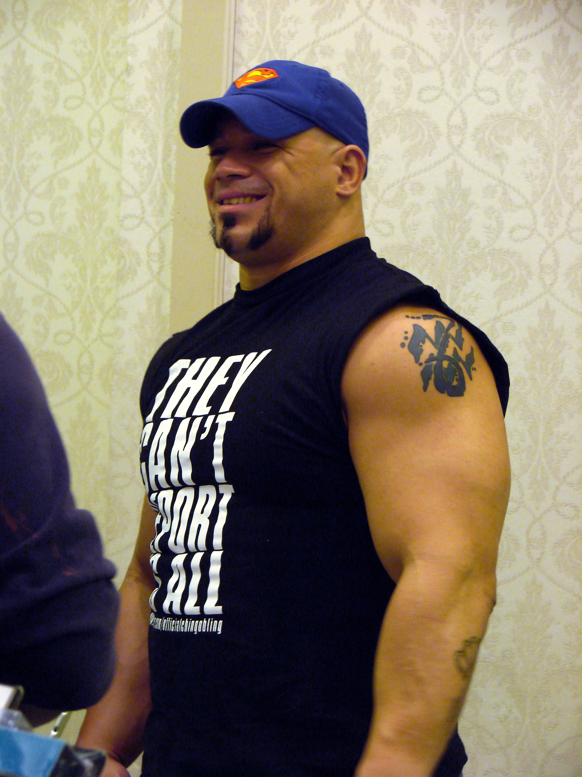 Shawn_Hernandez at TNA Lockdown InterAction 2007.